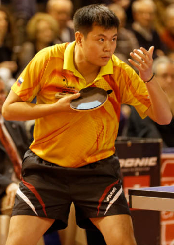 Hou Yingchao